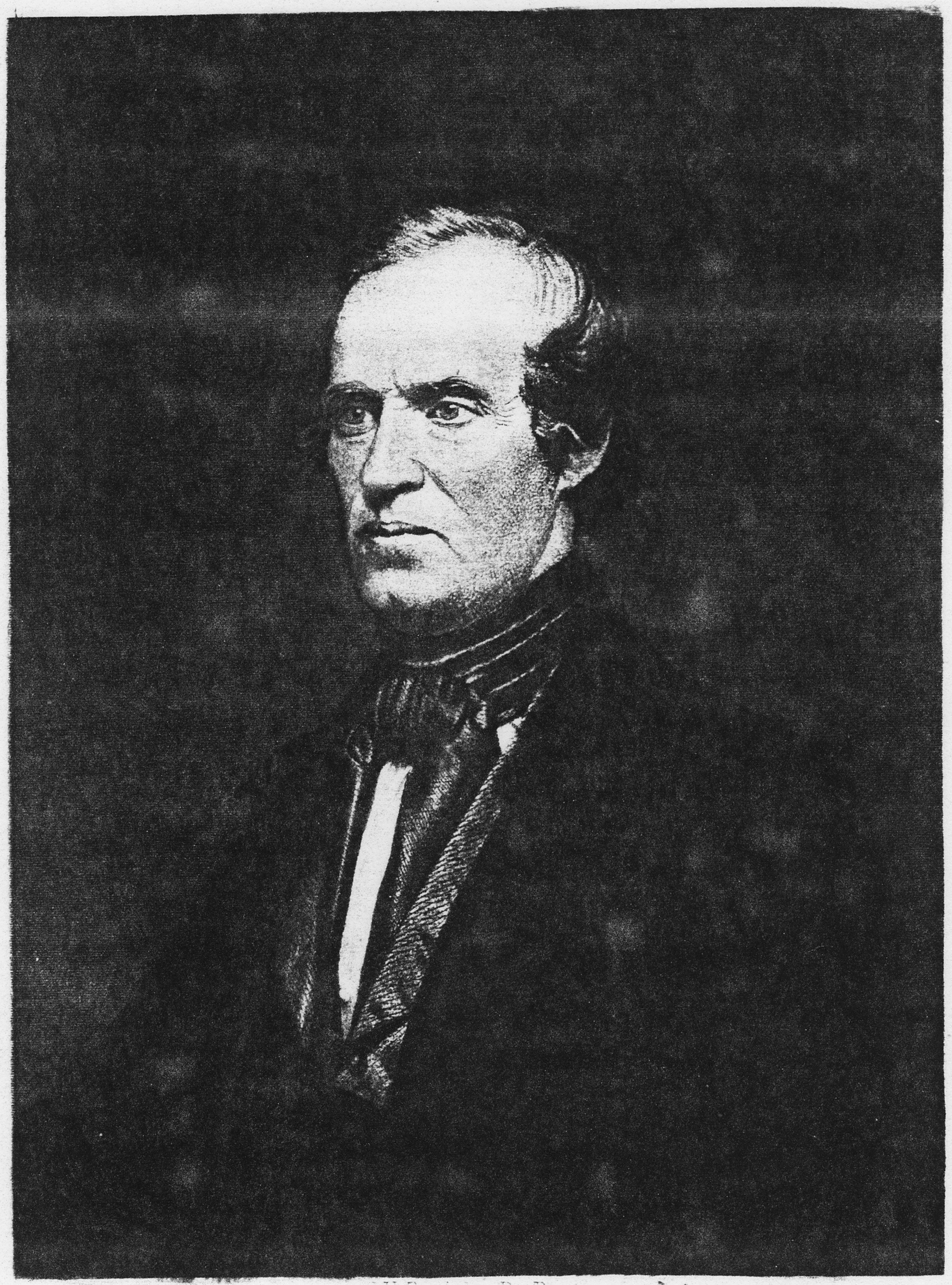 Scope and content: Photograph of George Briggs, governor of Massachusetts, 1844 to 1851.